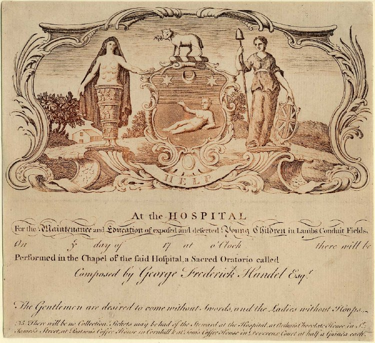 Print after William Hogarth. c.1750 Etching and engraving, printed in red. Original drawing by William Hogarth (1747). Engraver unknown.